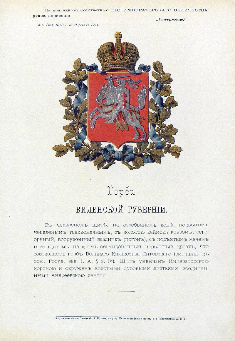 Official Russian Empire coat of arms Vilno Governorate.